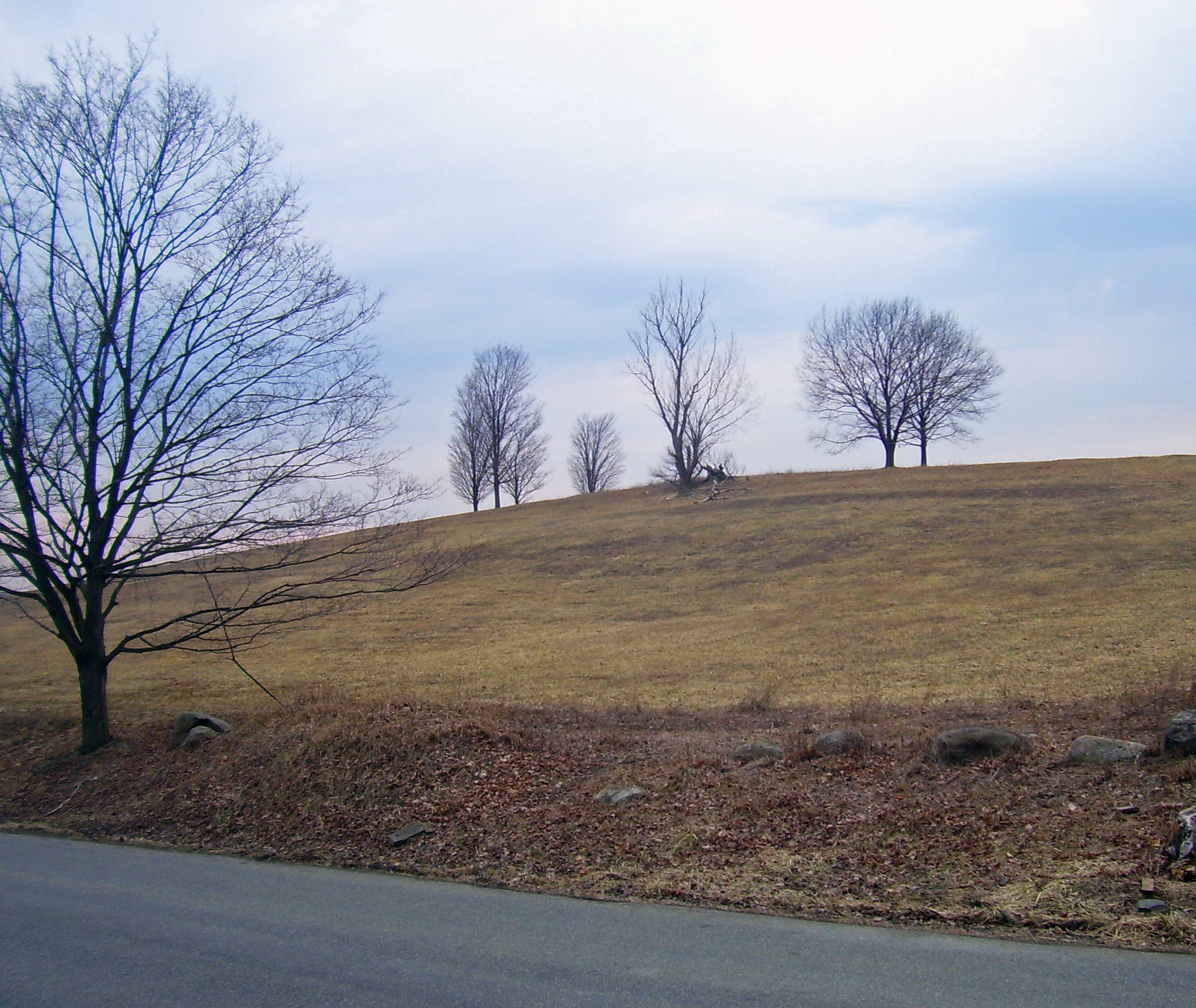 Hill near Moodna Viaduct in Town of Cornwall, NY, USA, where George Clooney sees the three horses in the 2007 film Michael Clayton. Picture taken almost two years after film produced, under similar conditions.